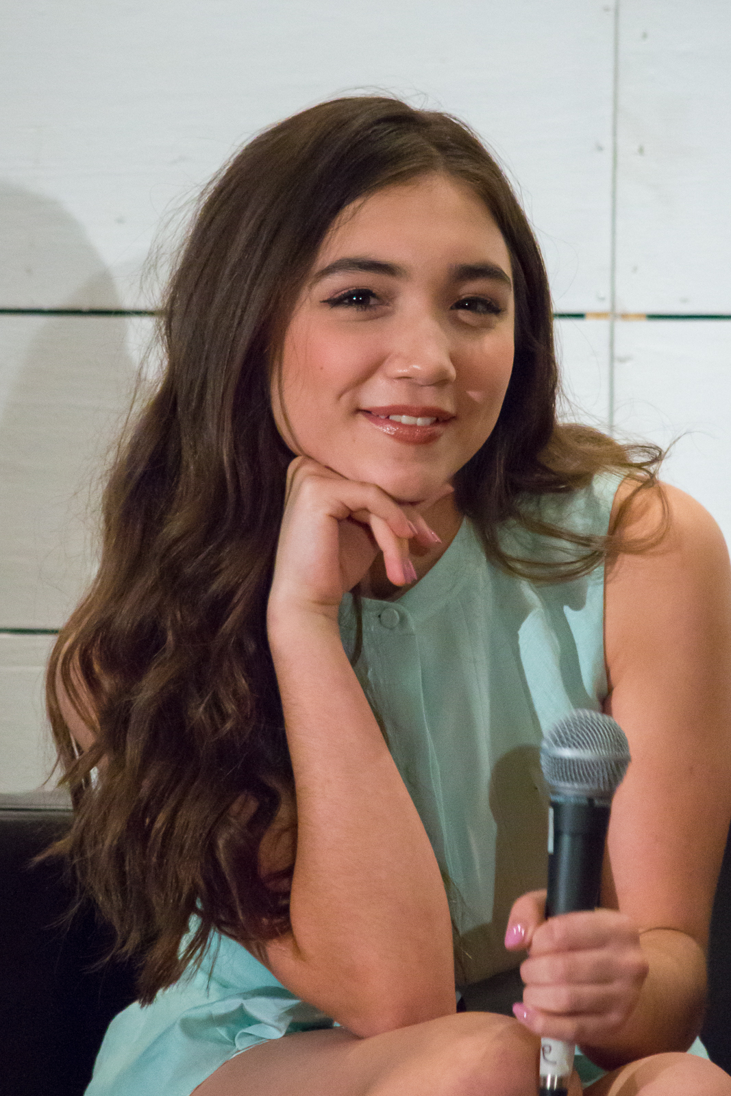 Rowan Blanchard at the ATX TV Festival 2015 for Girl Meets World